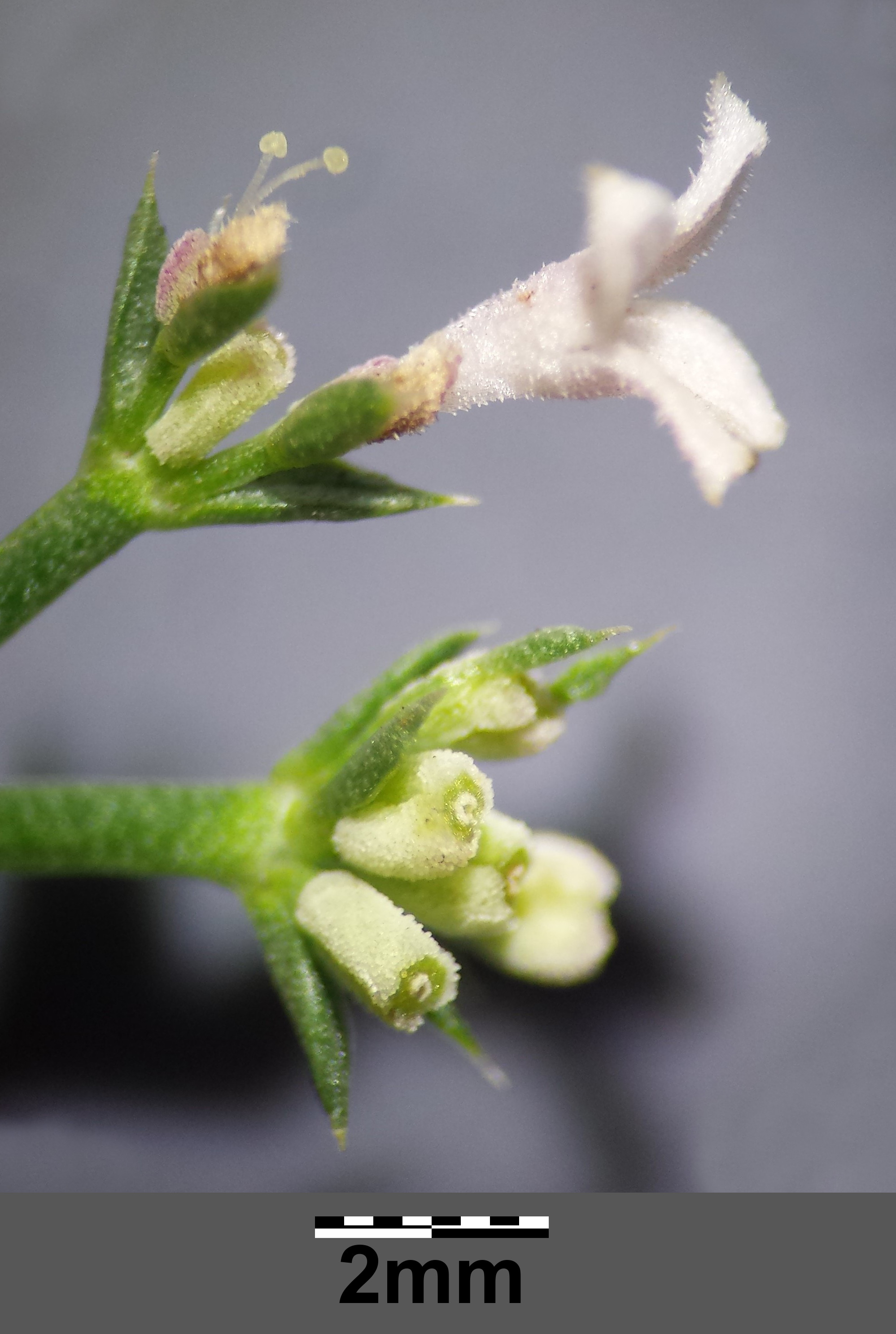 Inflorescence/Infructescence Taxonym: Asperula cynanchica (ss Fischer et al. EfÖLS 2008 ISBN 978-3-85474-187-9) Location: Kleiner Wagram near Gerasdorf, district Wien-Umgebung, Lower Austria - ca. 170 m a.s.l. Habitat: semi dry grassland